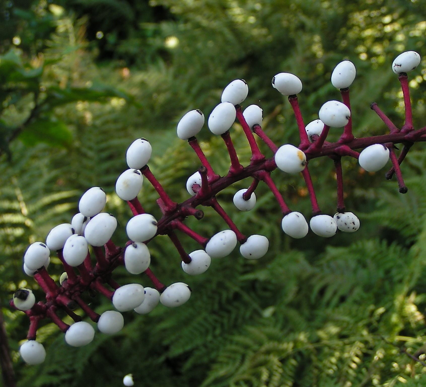 Actaea acuminata Actaea pachypoda 2005, sep 4 by pethan Botanical Gardens Utrecht University